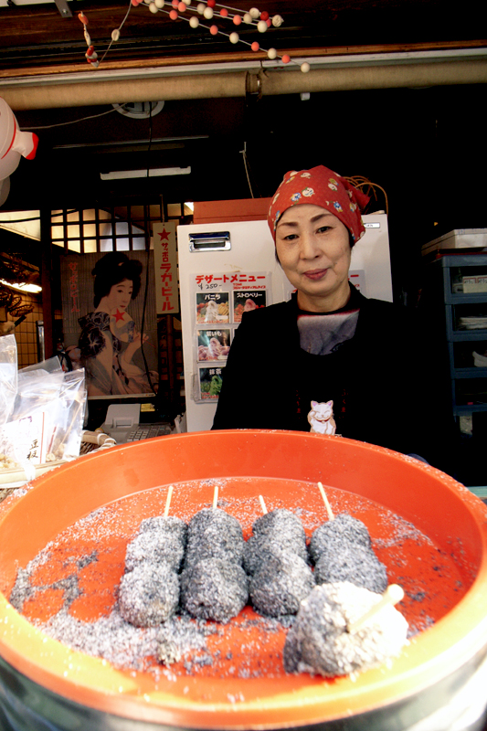 In front of the soba restaurant Teuchi Soba Dokoro Yabutyu in Shibamata, Katsushika, Tokyo